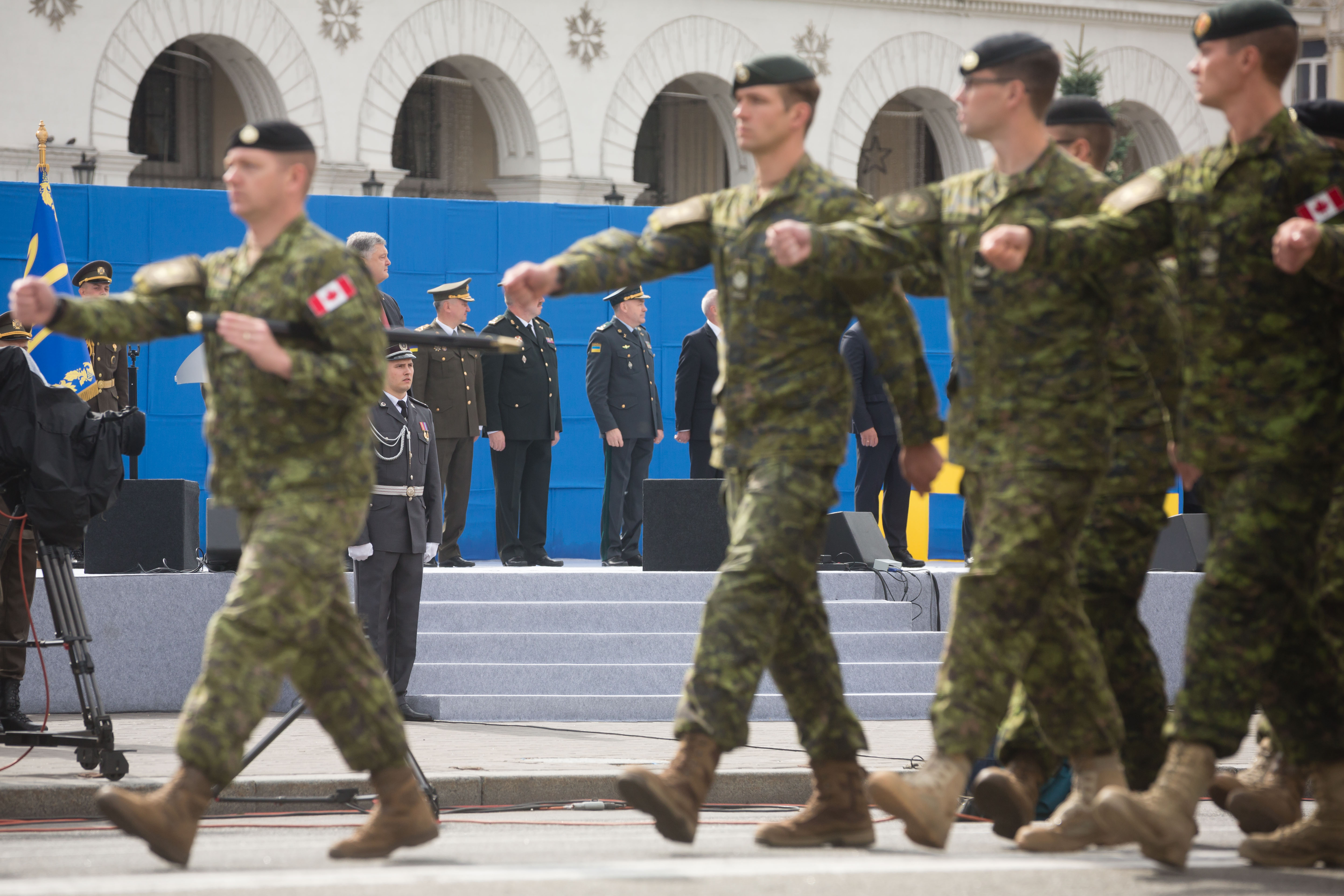 Independence Day military parade in Kyiv. August 24th, 2017